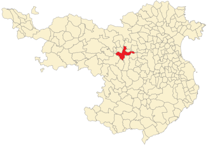 Sant Ferriol